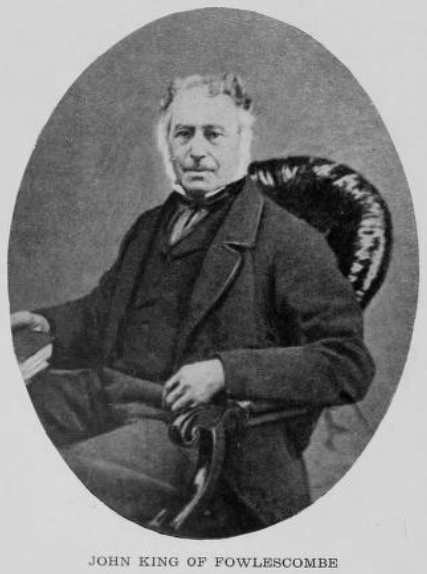 John King (d.1841) of Fowelscombe in the parish of Ugborough in Devon, Master of the South Devon Foxhounds.